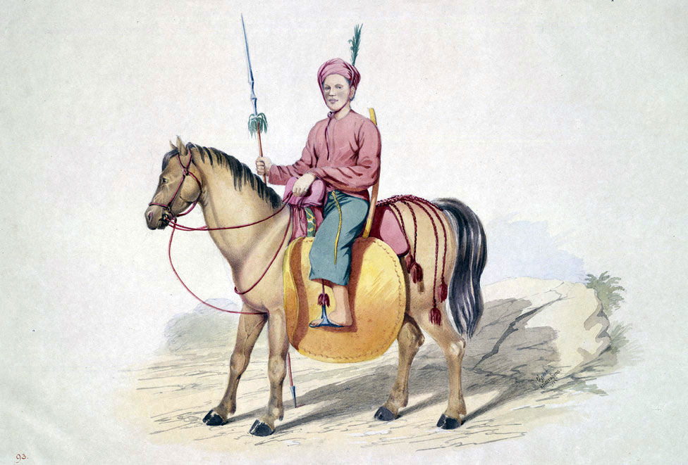 Watercolour with pen and ink of a Manipuri horseman (Kathe). The horseman in this portrait came from Manipur in the north-west of the region and known by the Burmese as Kathé. In 1826, Manipur became a state within the British Raj. Grant was unimpressed with the Burmese cavalry. He wrote that 'If the Infantry of the Burmese army disappointed expectation, the mounted portion yet more...for although there were many beautifully formed, powerful, and spirited [horses], very many more were of sorry appearance, as though of inferior blood, or badly fed. The men, believed to be principally or exclusively Munnipooreans, were strong enough looking, but miserably set off by their dress and equipments. Their clothes were of the same coarse quality as those of the foot soldiers, and their arms consisted of a short spear, and the customary sword slung at their backs.'